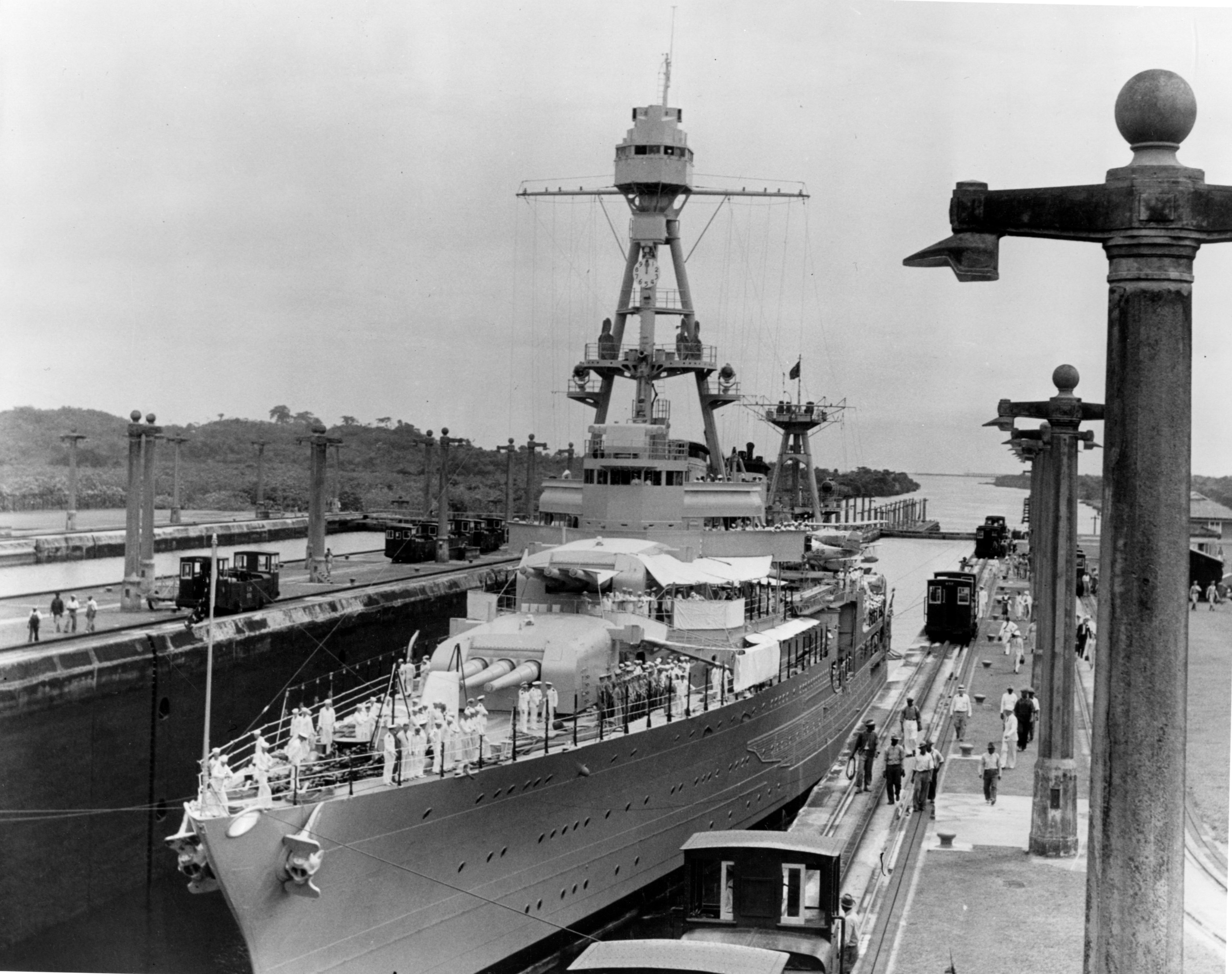 The U.S. Navy heavy cruiser USS Houston (CA-30) transits the Panama Canal with Franklin Delano Roosevelt's presidential party on 11 July 1934 en route from Annapolis, Maryland (USA), to Portland, Oregon (USA). This was the first passage through the canal by a president of the United States while in office.